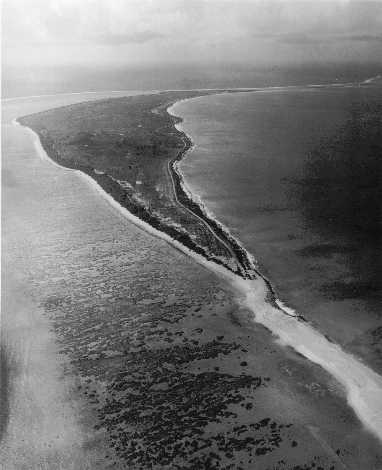 Aerial view of Bikini Atoll